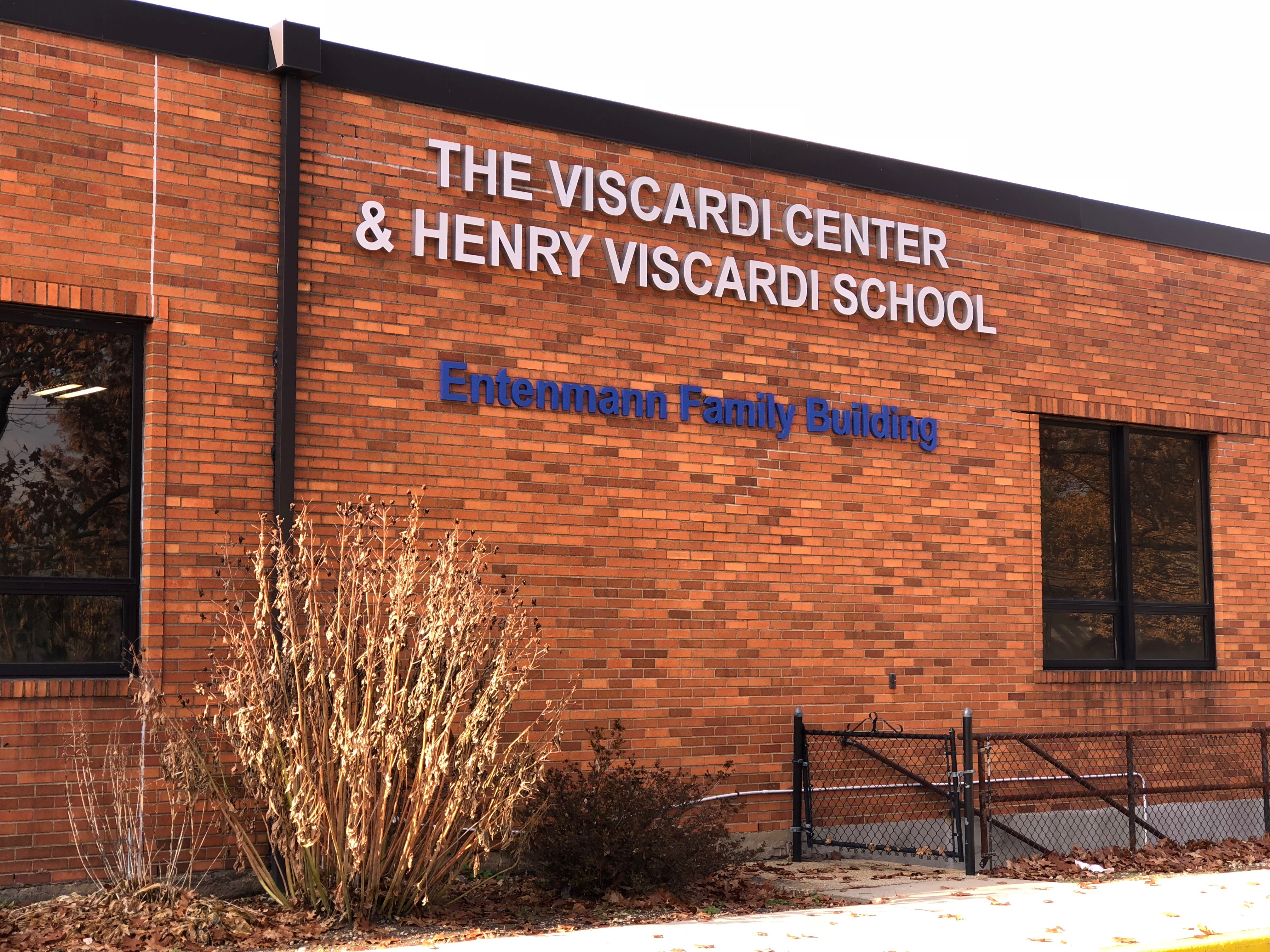 The Viscardi Center is a non-profit organisation in Albertson, New York, dedicated to educating, empowering and employing people with disabilities